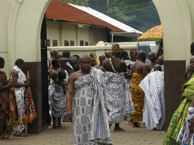 This photo has been taken in the country: Ghana